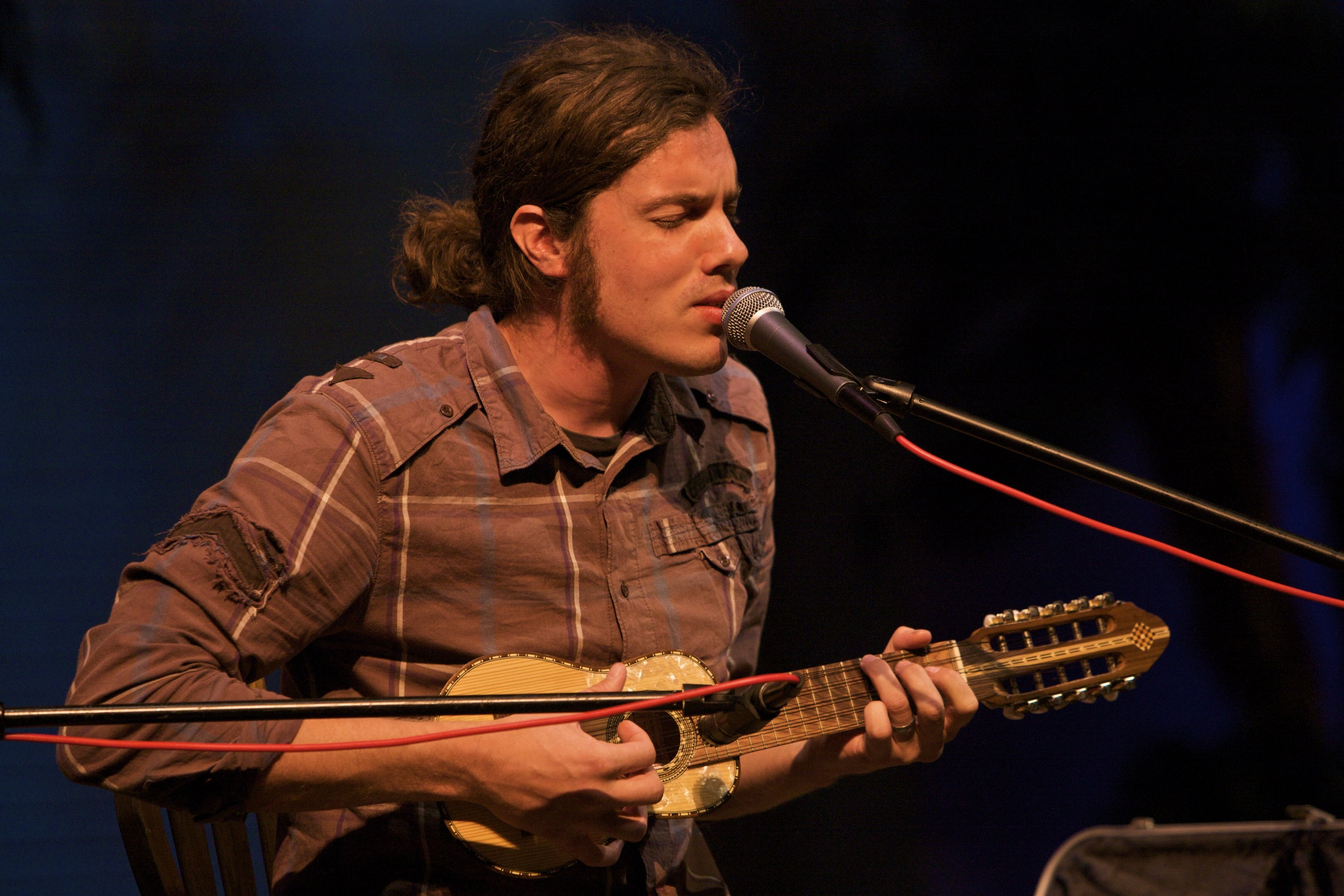 American singer-songwriter Josh Garrels at Freedom-Up in Redlands (2009)